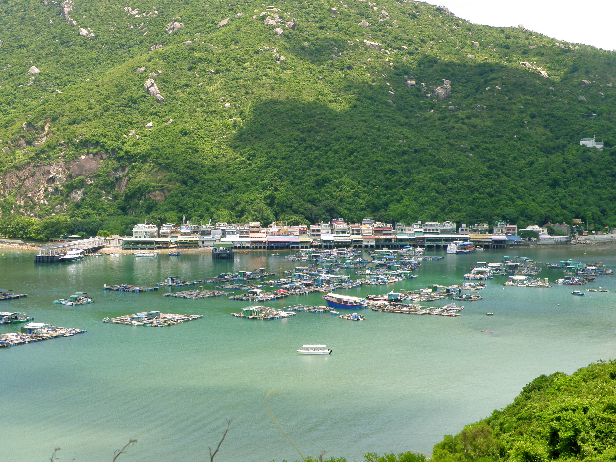 Sok Kwu Wan populated place in Lamma Island, Hong Kong.